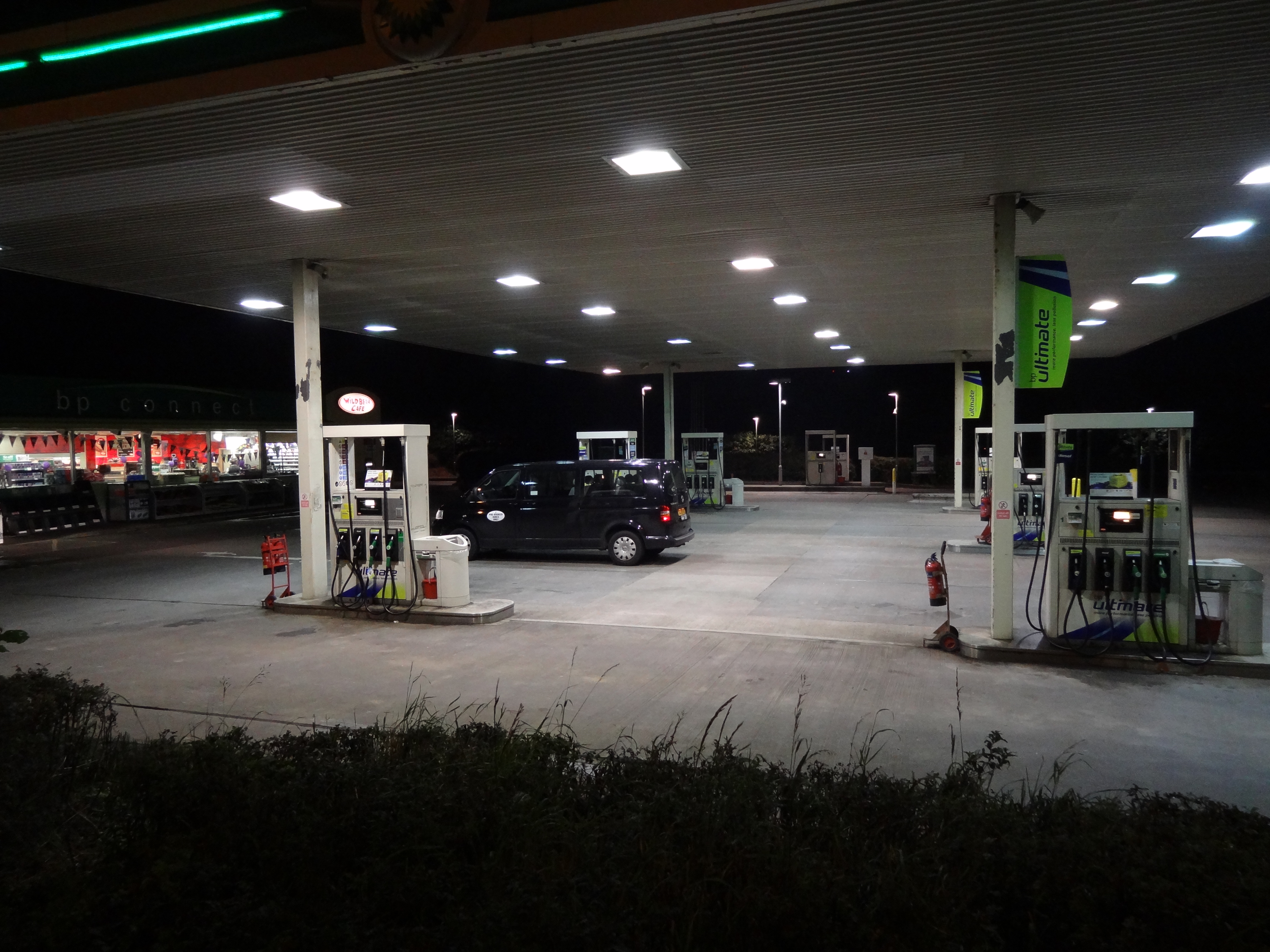 Service station forecourt